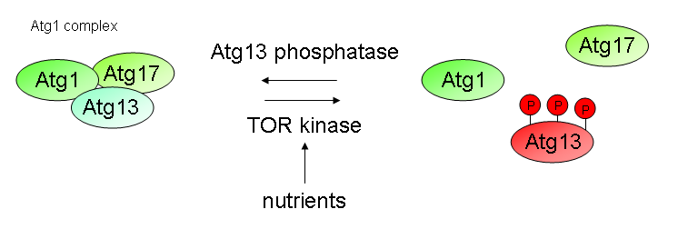 Mechanism of Atg1 complex regulation in yeast by phosphorylation of Atg13 by TOR kinase under nutrient rich conditions. The resulting phosphorylation leads to a dissociation of Atg1 and Atg13 and hence a breakdown of the complex.